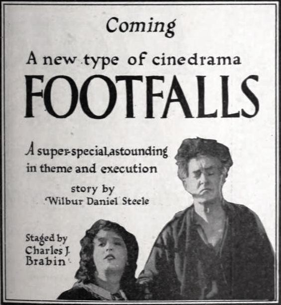 Advertisement for the American mystery film Footfalls (1921) with Estelle Taylor and Tyrone Power, Sr., on page 5 of the November 5, 1921 Exhibitors Herald.